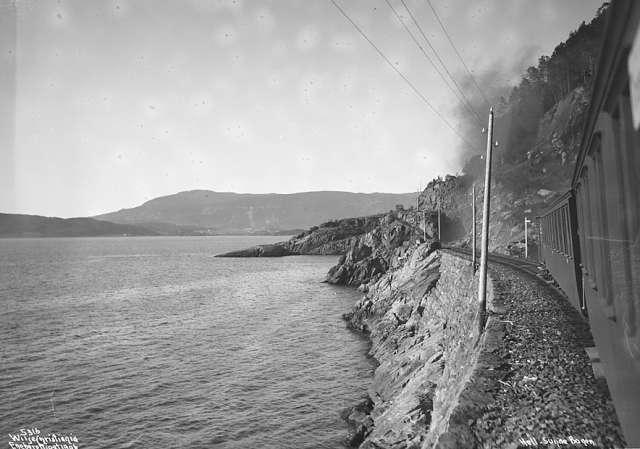 The Nordland Line near Muruvik in Stjørdal, Norway